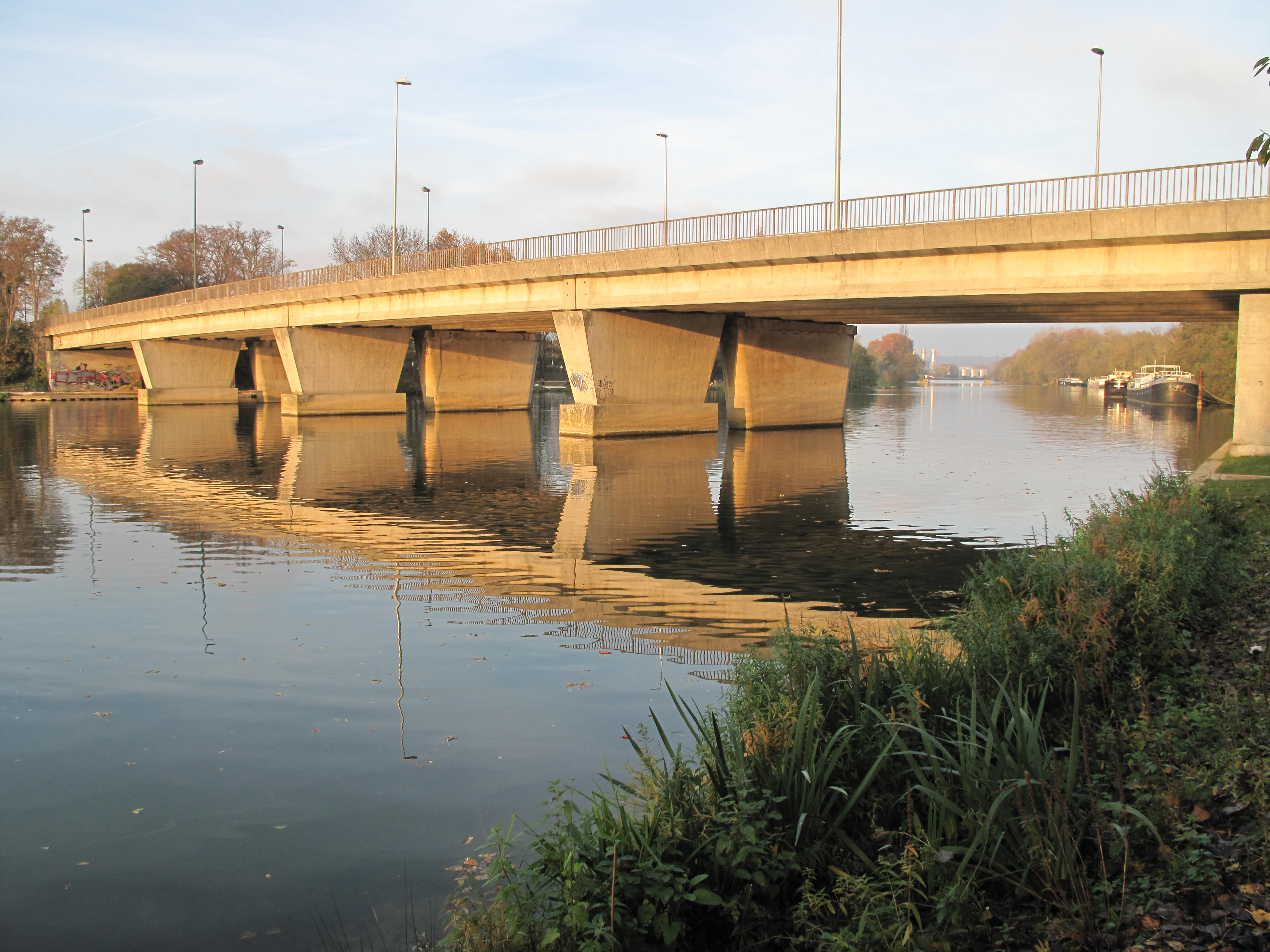 Bridge over Marne river between Vaires-sur-Marne and Torcy (Seine-et-Marne, France).